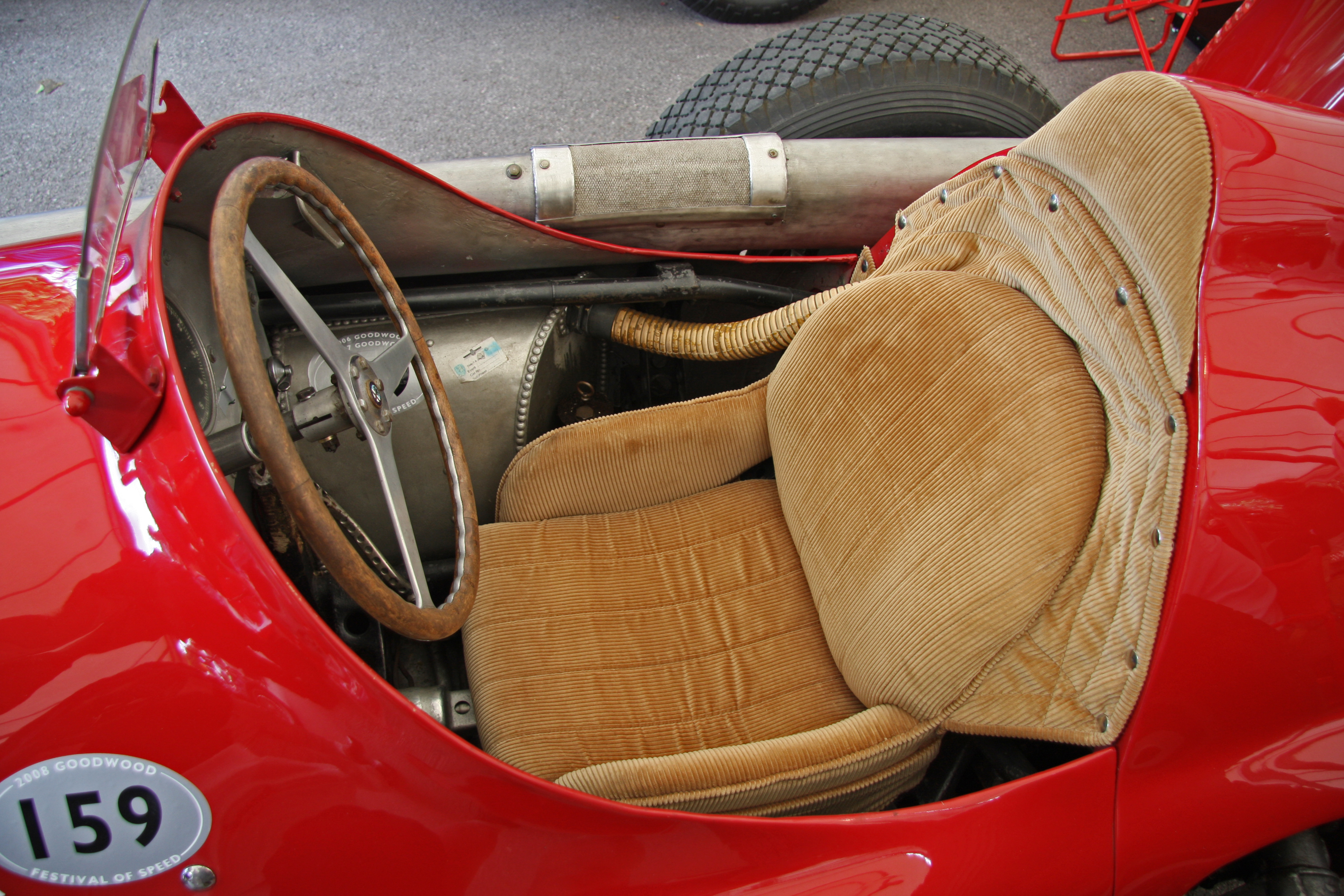 Italian corduroy seat sir?